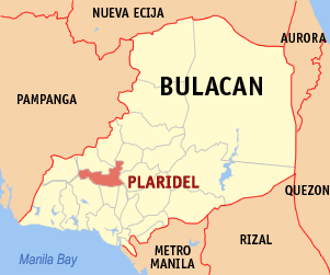 Map of Bulacan showing the location of Plaridel